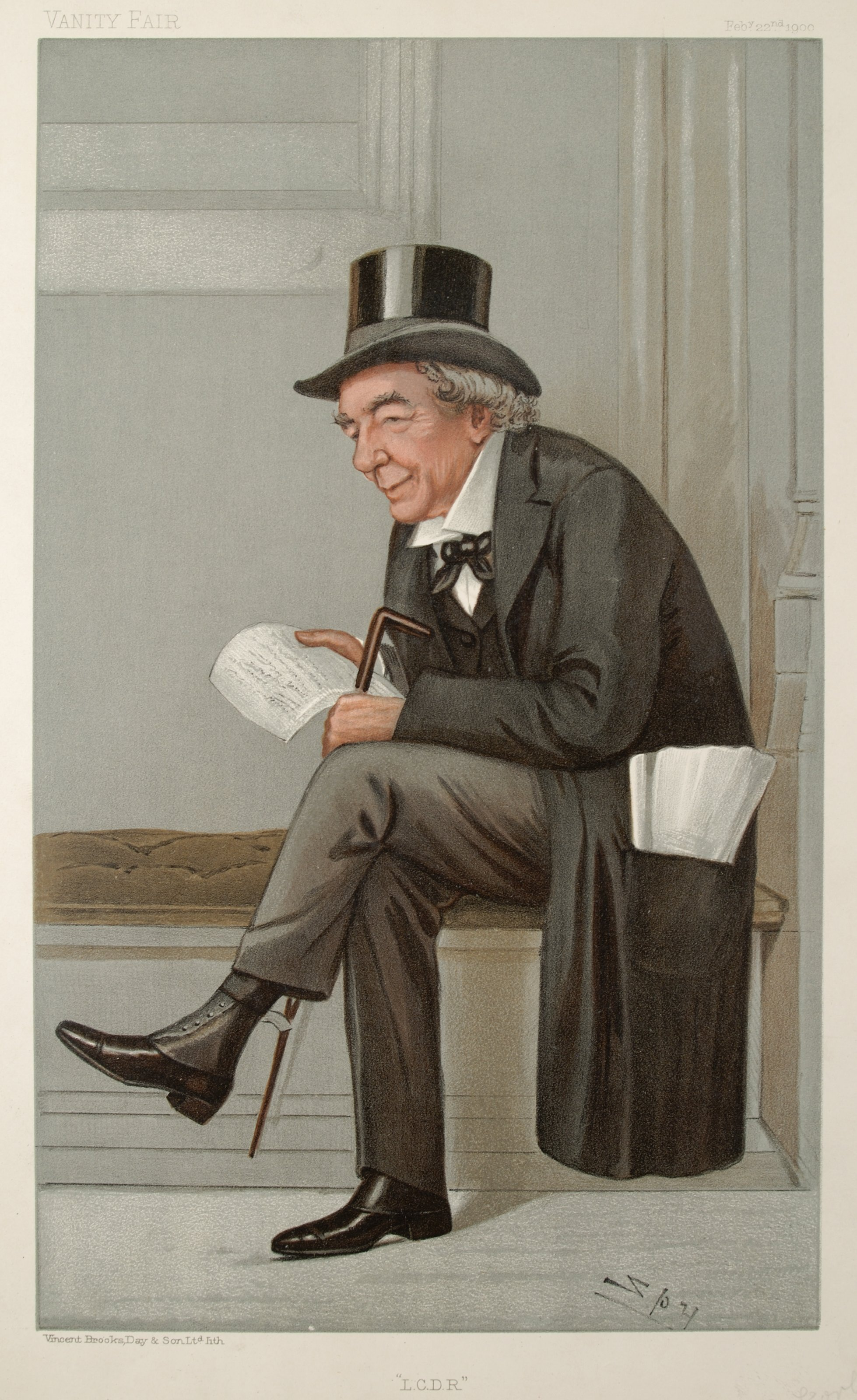 Men of the Day No. 775: Caricature of James Staats Forbes (1823-1904). Born in Aberdeen. Chairman of London, Chatham and Dover Railway (LCDR) 1874-1886 and a director until 1897. Was also Chairman of Edison & Swan Electric Light Co., President of the National Telephone Co and a Director of Lion Fire Insurance. Director of Metropolitan District, Chairman of the North Metropolitan & DN&SR, and on Board of Hull, Barnsley & West Riding Co. Caption read "L.C.D.R".